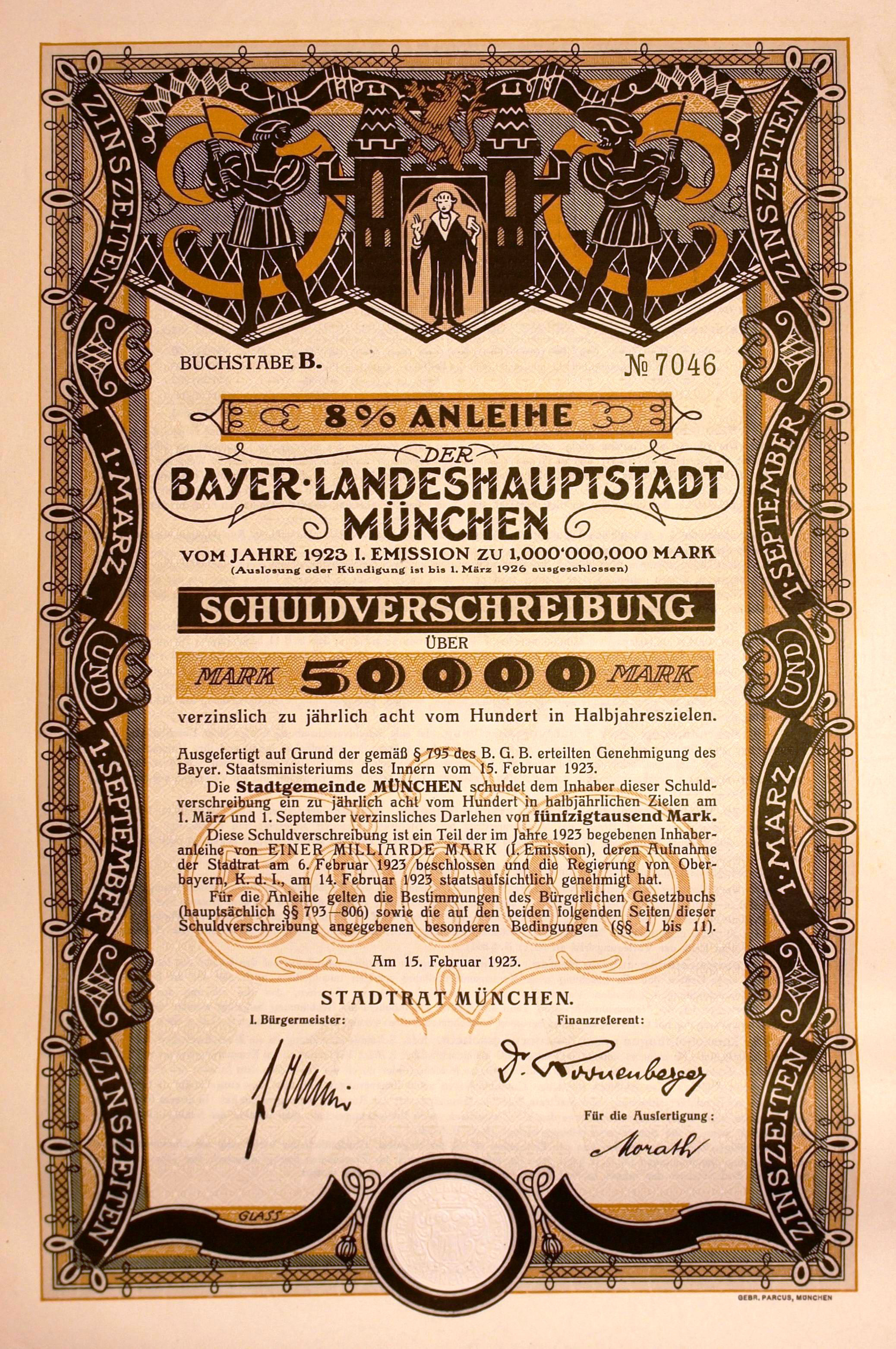 Bond of the city of Munich, issued 15. February 1923